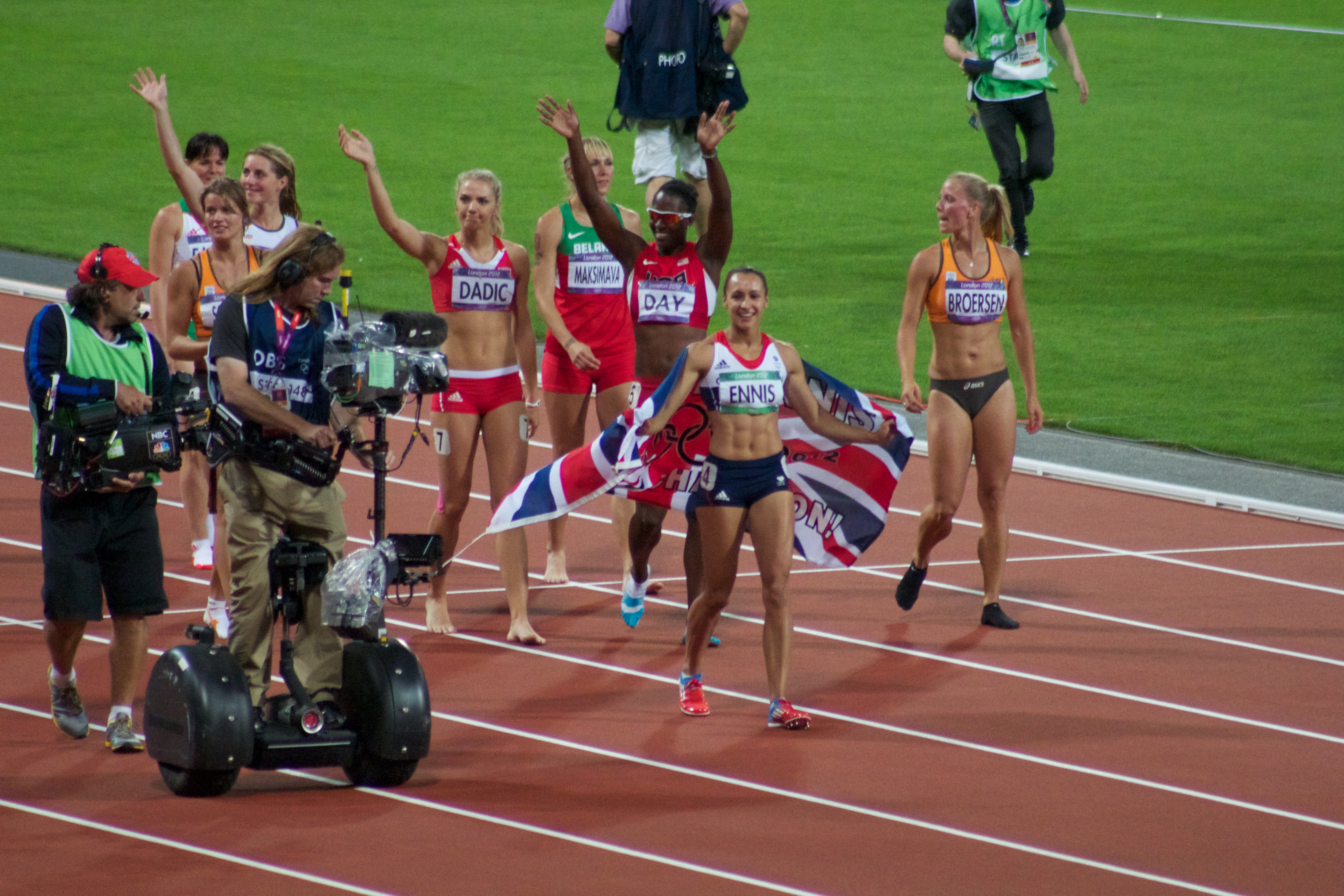 Heptathlon at the 2012 Summer Olympics. Jessica Ennis won. Dafne Schippers, Ivona Dadic, Yana Maksimava, Sharon Day, Jessica Ennis, Nadine Broersen